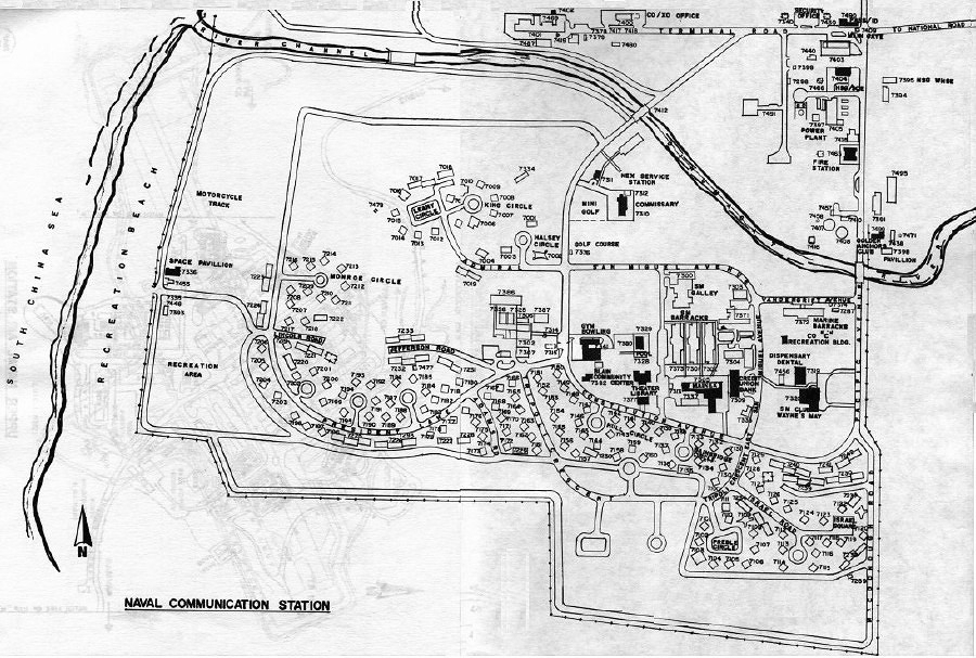 Map of Naval Communications Station San Miguel, PI (1990.